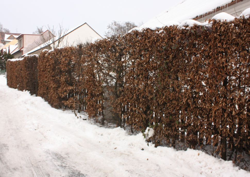 Carpinus betulus, hedge, Czech republic, EU, Brno Komín